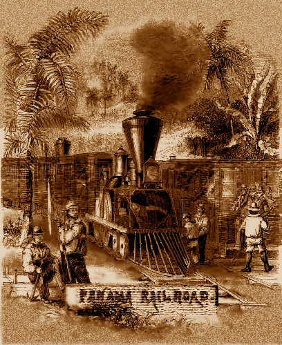 Panama Rairoad Frontispiece